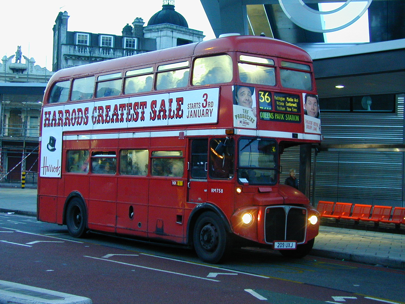 London Central AEC Routemaster RM 758 (209 UXJ) on route 36 at Vauxhall bus station, 6 January 2005. Photo by Matthew Wharmby.